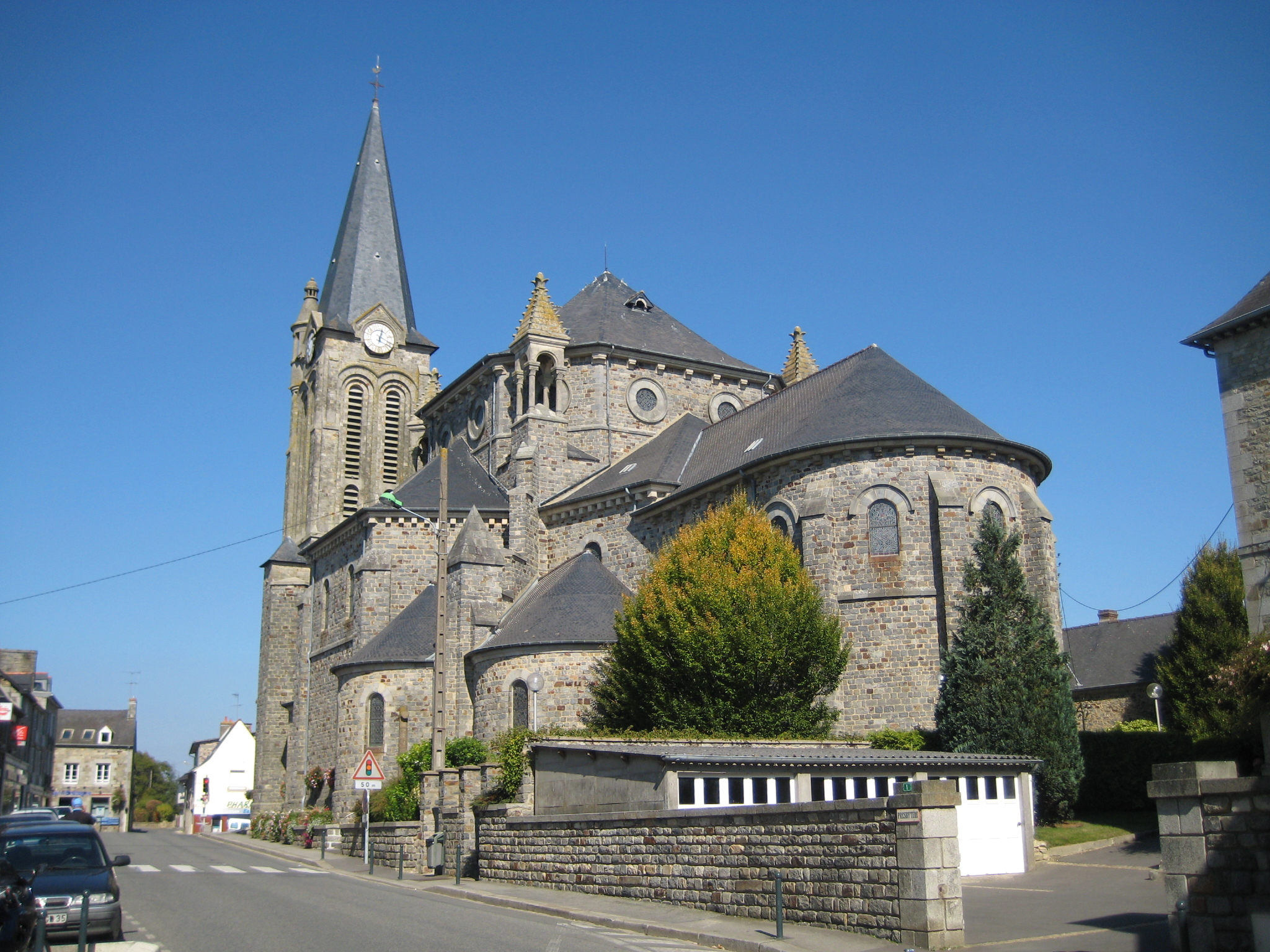 Church of Liffré